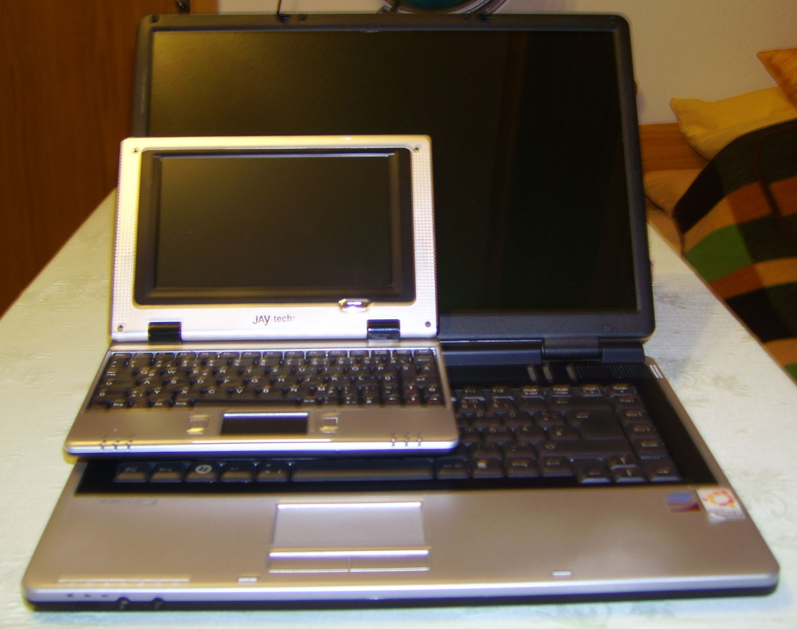 Skytone Alpha 400 (7") compared to Fujitsu Siemens Computers Amilo Pi2515 (15.4")